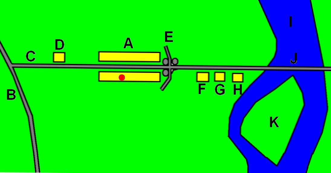 Haikou Tower location map, Hainan, China A - Haikou Tower site B - Longkun Road C - Guoxing Avenue D - HNA Building E - Haifu Road F - Hainan Library G - Concern Hall H - Hainan Museum I - Nandu River J - Qiongzhou Bridge K - Simapo Island